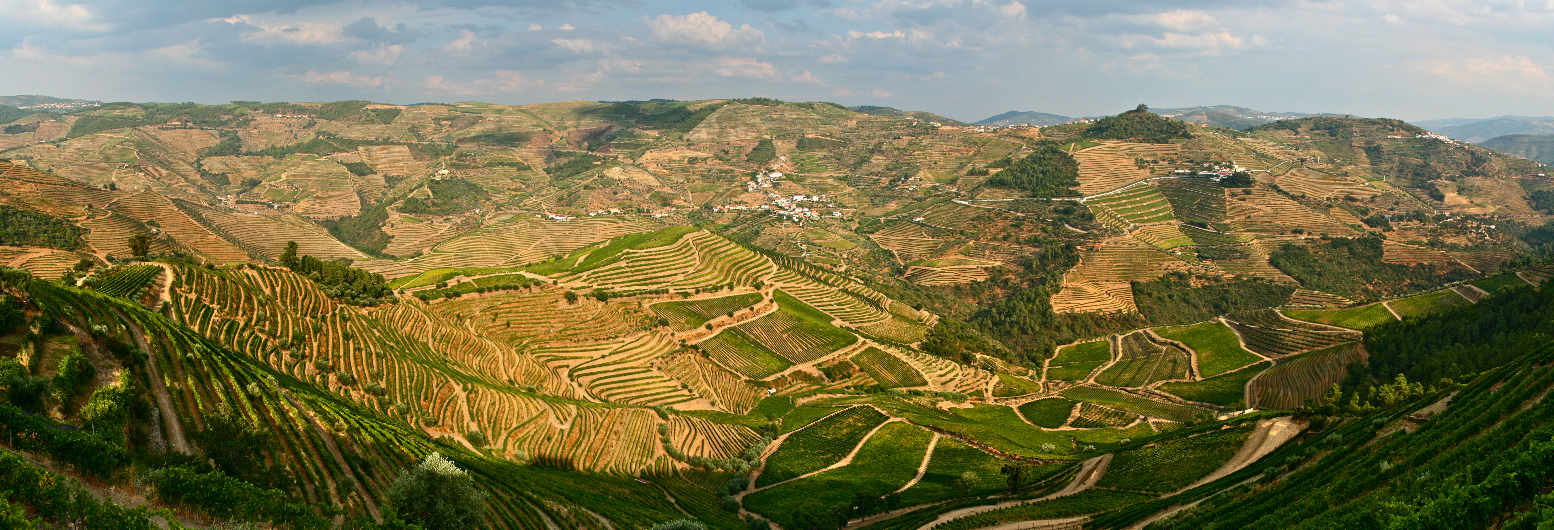 Douro Wineyard Terraces